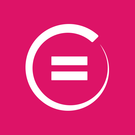 Logo of SDG10 Reduced Inequalities